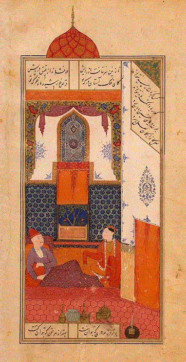 Bahram Gur in the Red Pavilion. The Khamsa by Nizami Ganjavi.